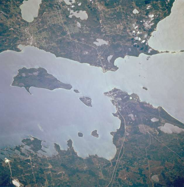 Straits of Mackinac, Michigan, U.S.A. October 1994. South is up.